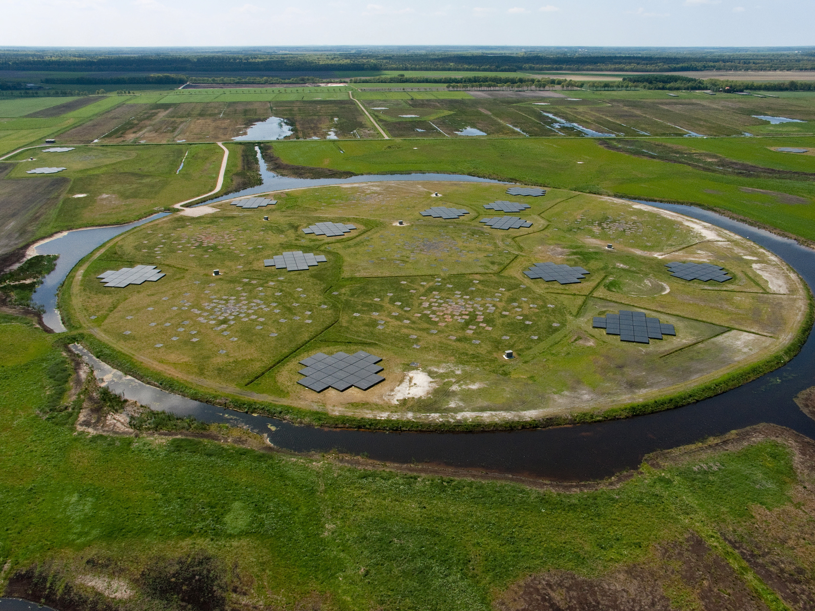 The LOFAR 'superterp'. This is part of the core of the extended telescope located near Exloo, Netherlands.